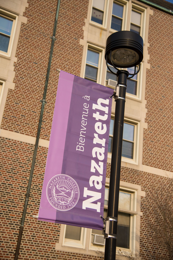 Bienvenue, one of many welcome banners in different languages, a symbol of the College's global focus.